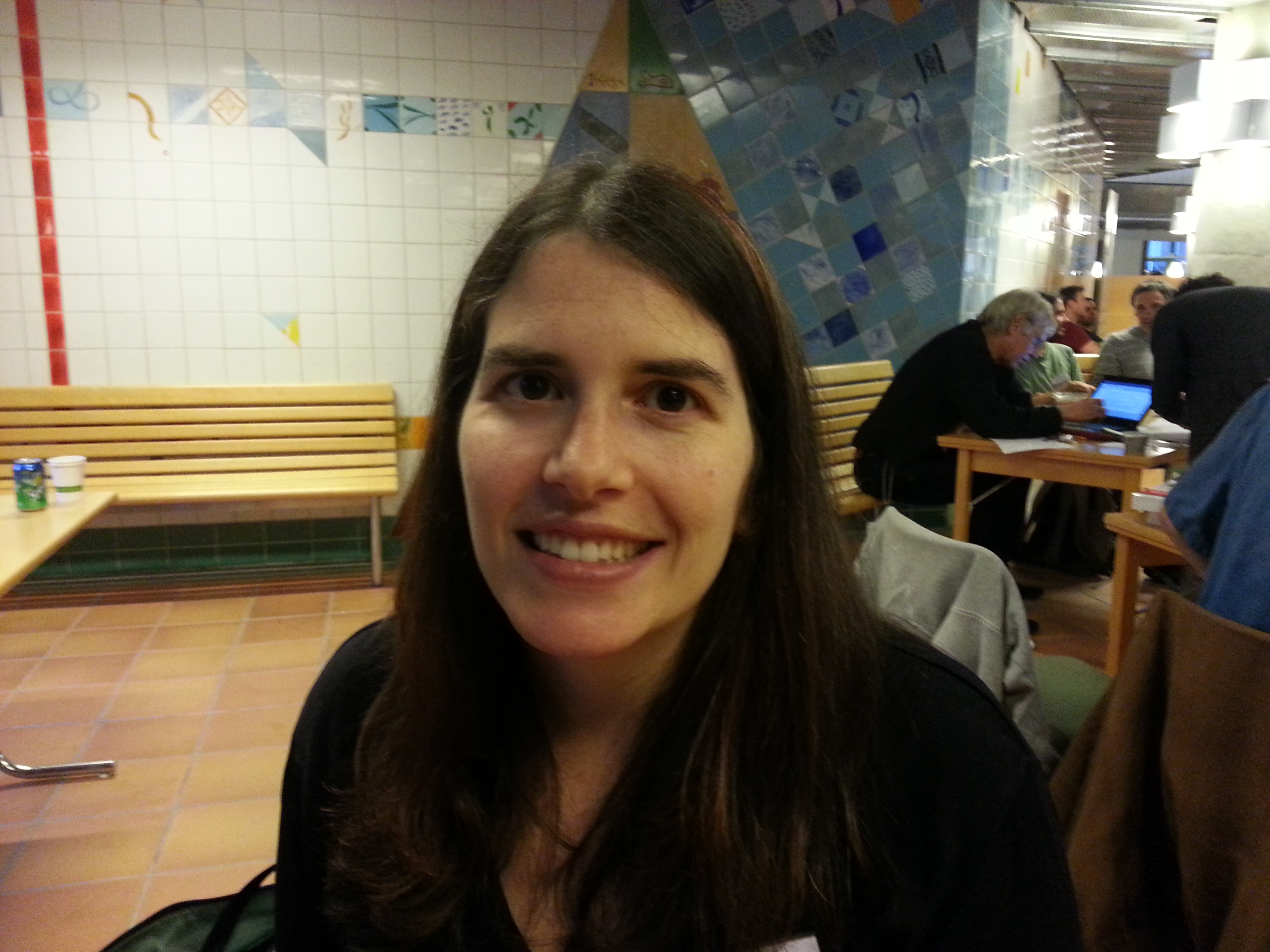 Karen Sandler at the FSCONS 2013 in Gothenburg, Sweden.